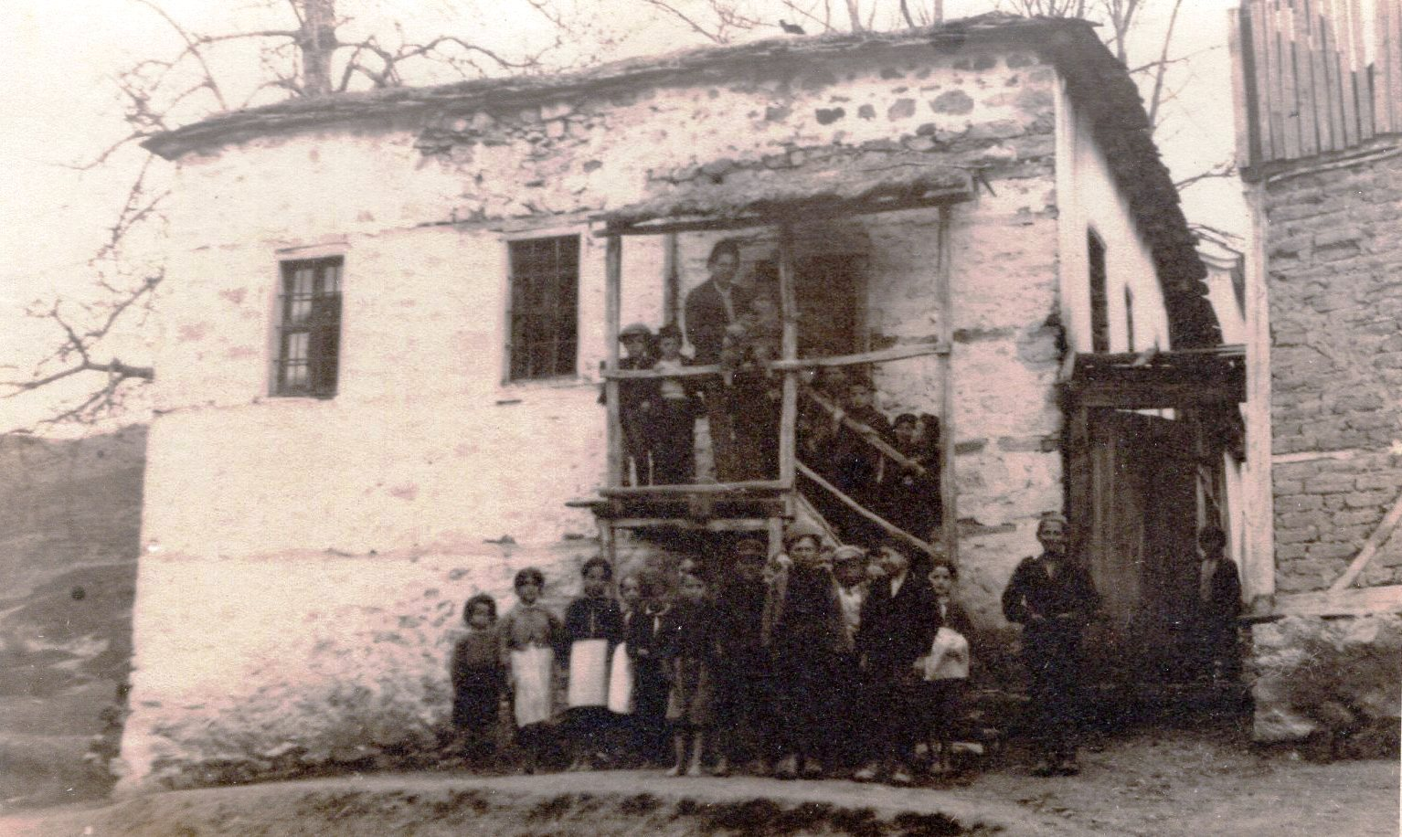 The old school building (owned by the church) in the village. Pusta Reka, Kruševo Municipality, which works till the end of the academic year 1945-1946. Photographed in April 1948 This media file is produced by Wikipedian in Residence in Category:Wikipedian in Residence at DARM in 2016.